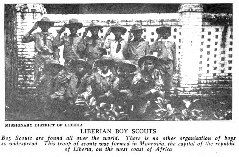 Photograph “Liberian Boyscouts”. Illustration from Forth Journal